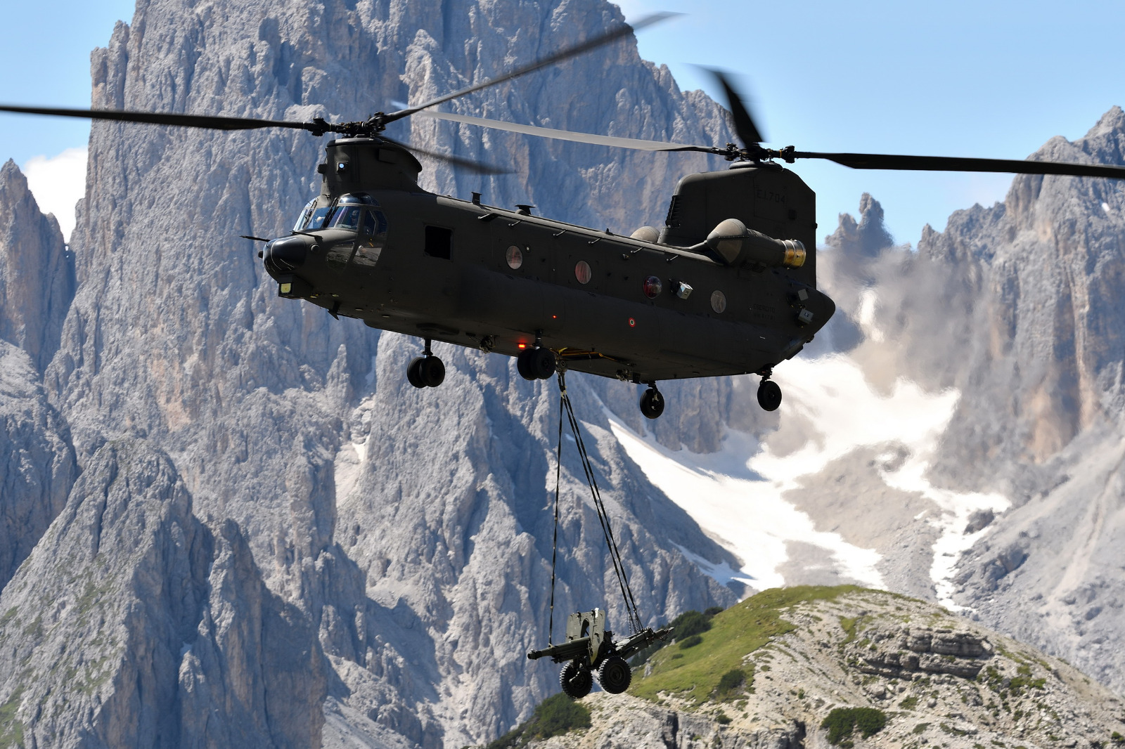 Italian Army 1st Army Aviation Regiment "Antares" CH-47F Chinook helicopter airlifting a Mod 56 pack howitzer during the exercise Lavaredo 2019 in the Dolomites